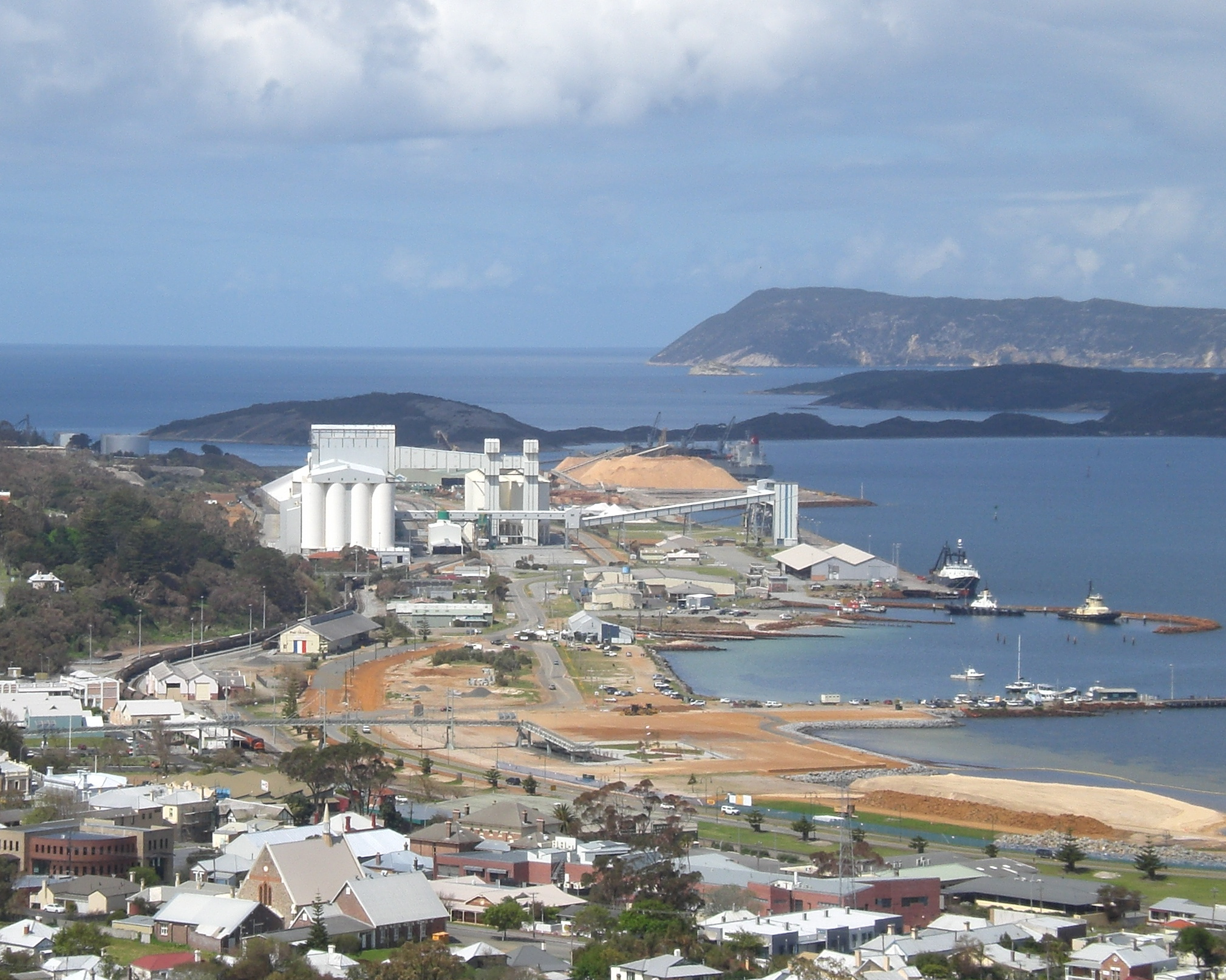 View of the Port of Albany, Western Australia, taken from Mt. Melville.